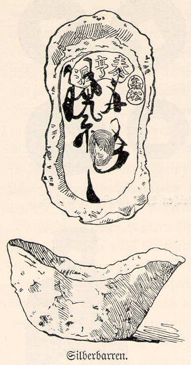 A boat-shaped 19-century sycee